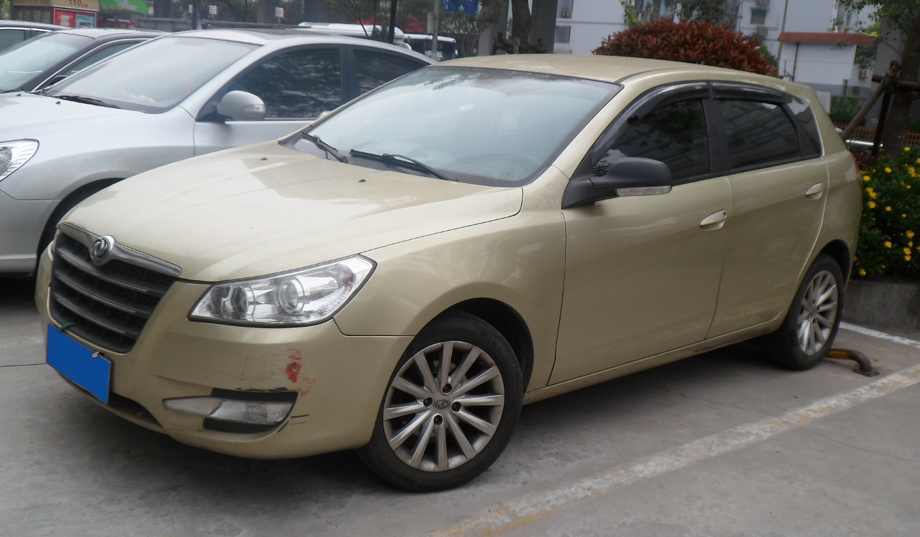 Dongfeng Fengshen H30 photographed in Shanghai, China.